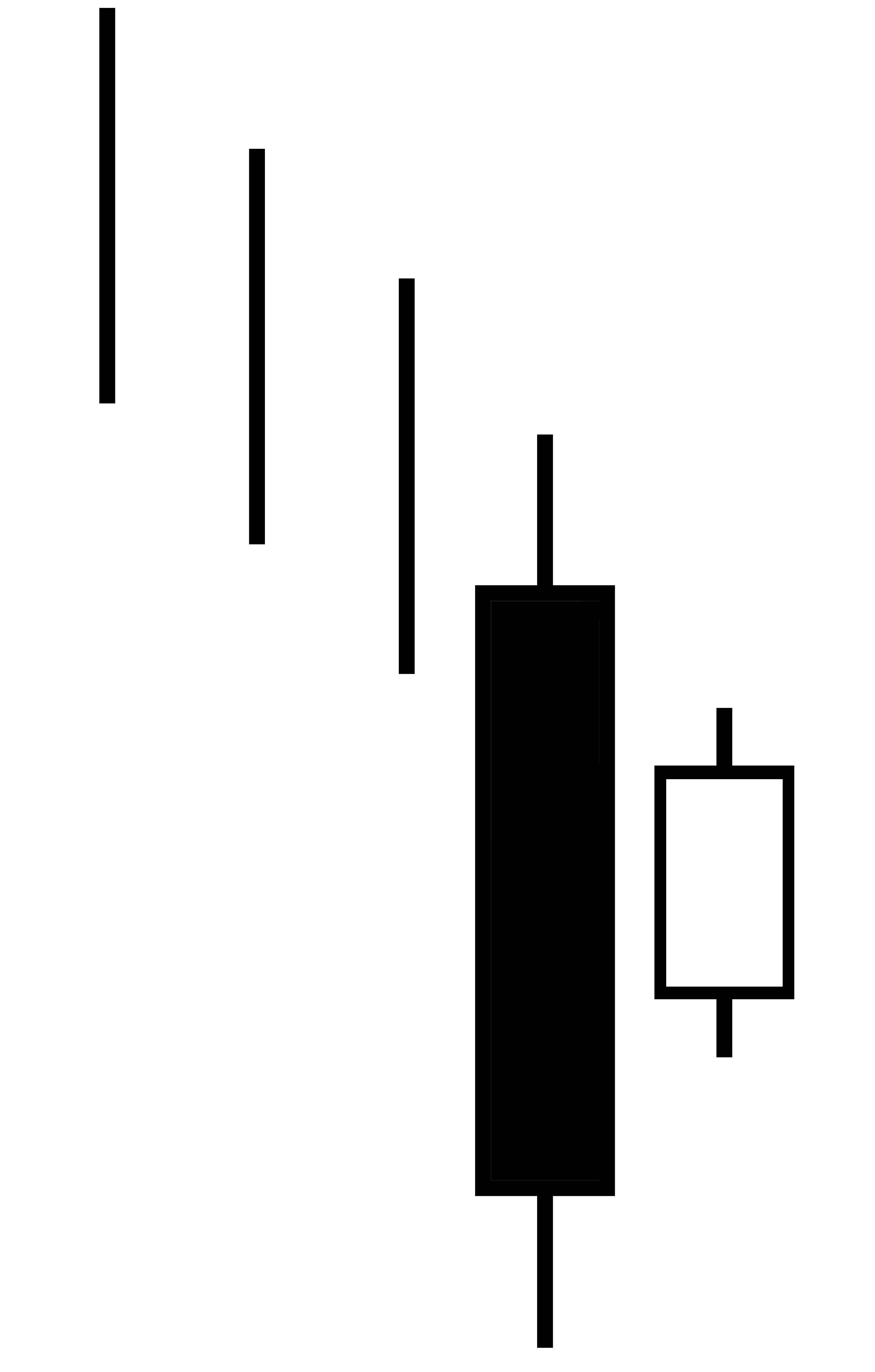 Bullish Harami